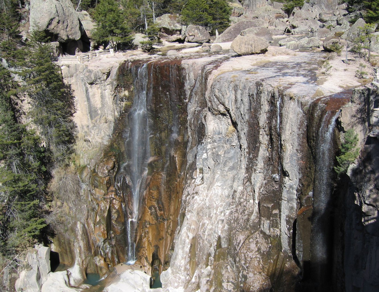 Cascada de Cusárare, Chihuahua Mexico carrying little water in winter